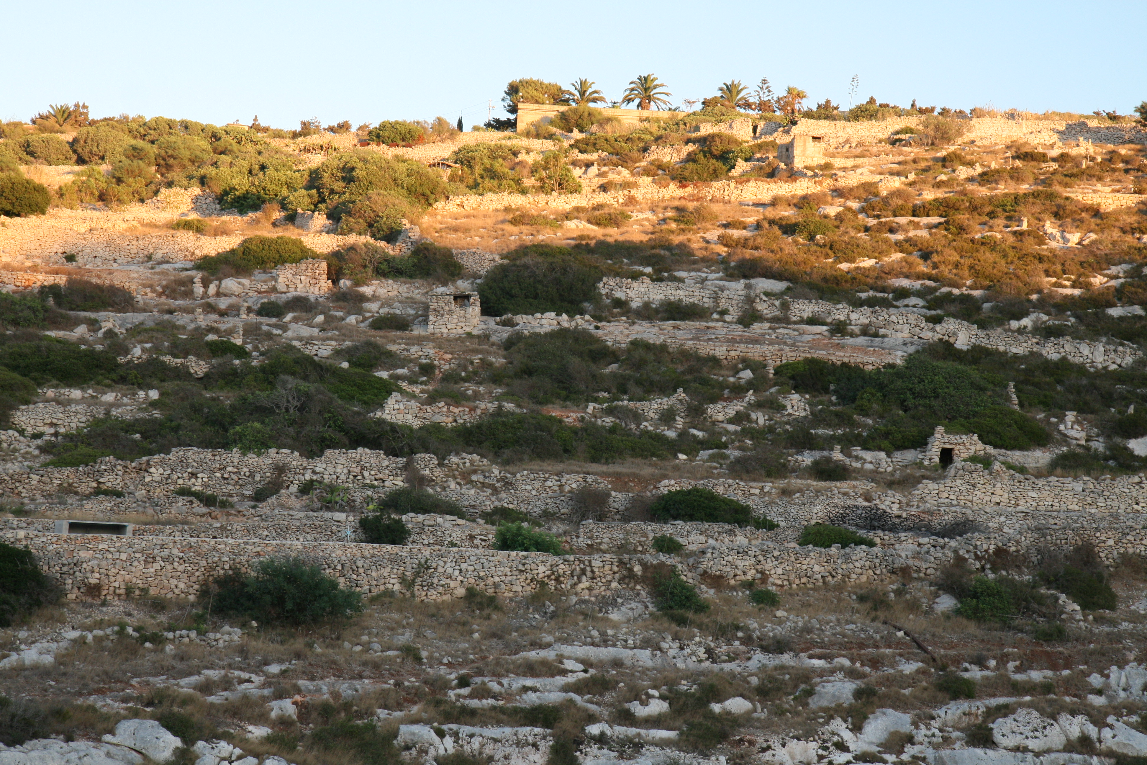 Malta modern talayots